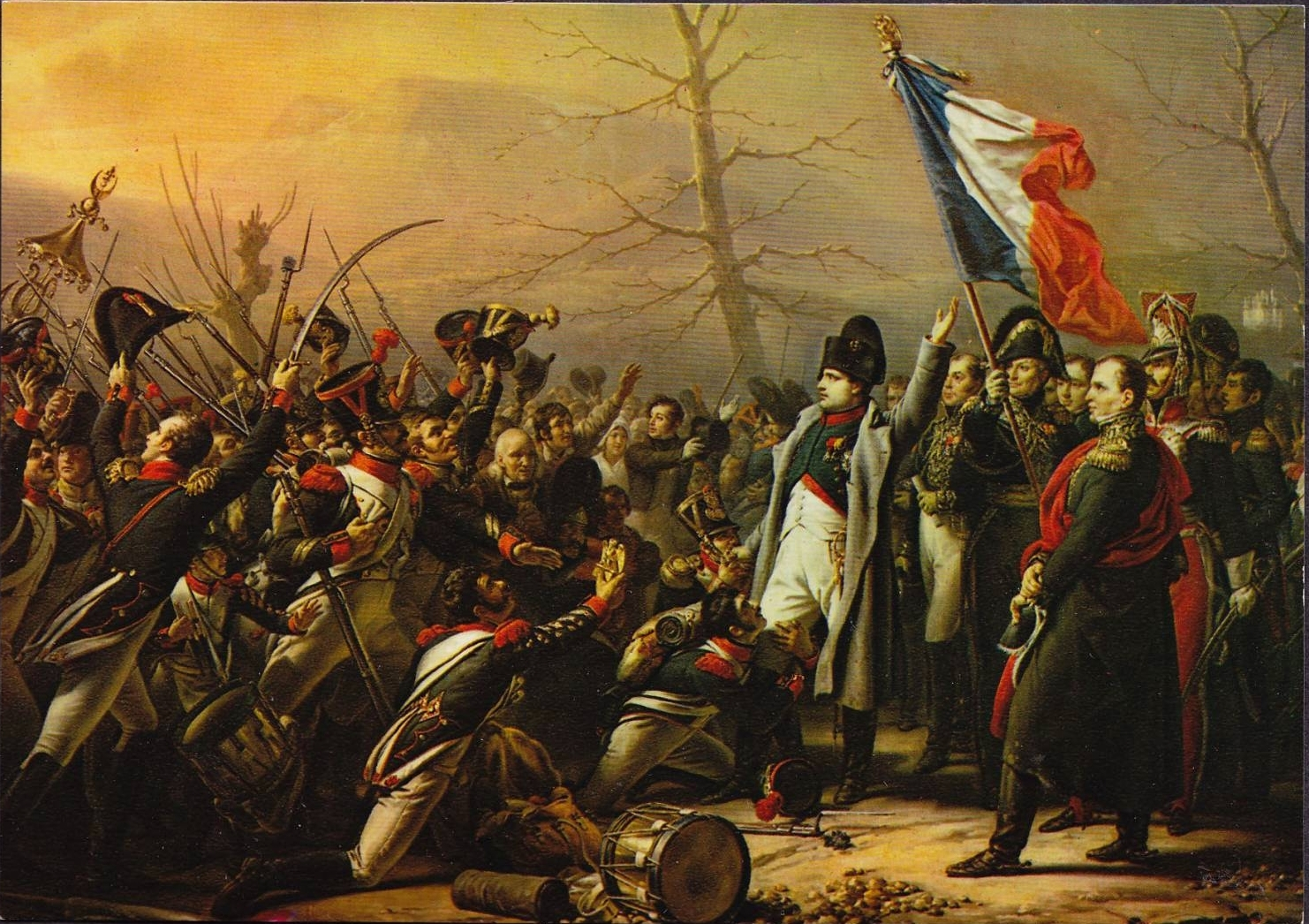 Napoleon's Return from Elba, by Charles Auguste Guillaume Steuben. Napoleon walk between the two forces and said if they were to kill their emperor; they were to do it now.